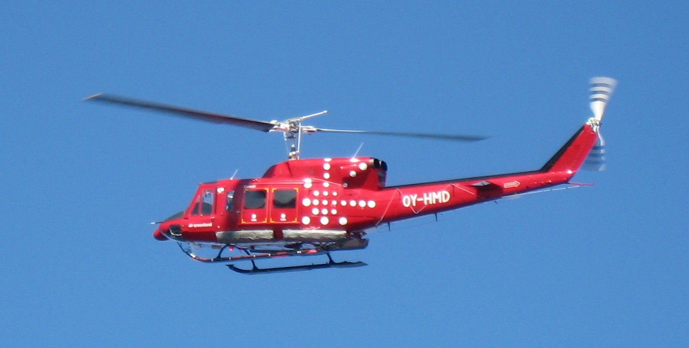 Bell 212 helicopter from Air Greenland preparing for landing at the old heliport in Upernavik, Greenland.